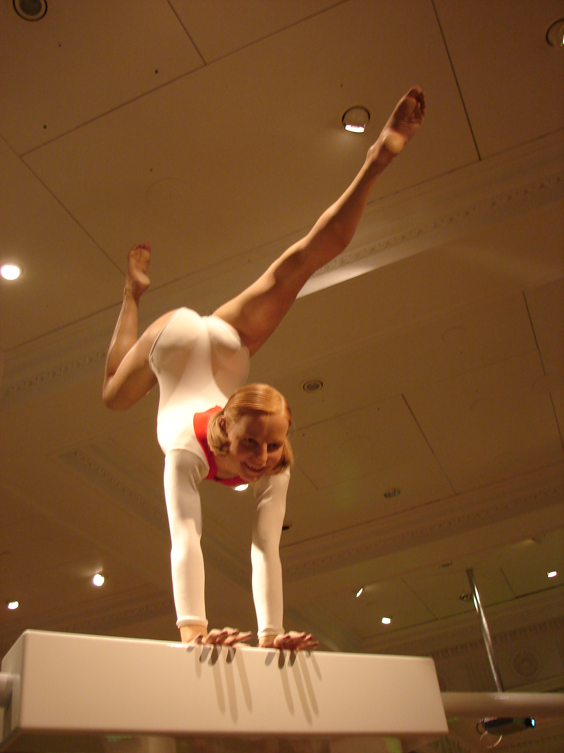 Photograph of wax sculpture of gymnast Olga Korbut on a balance beam at Madame Tussauds, London